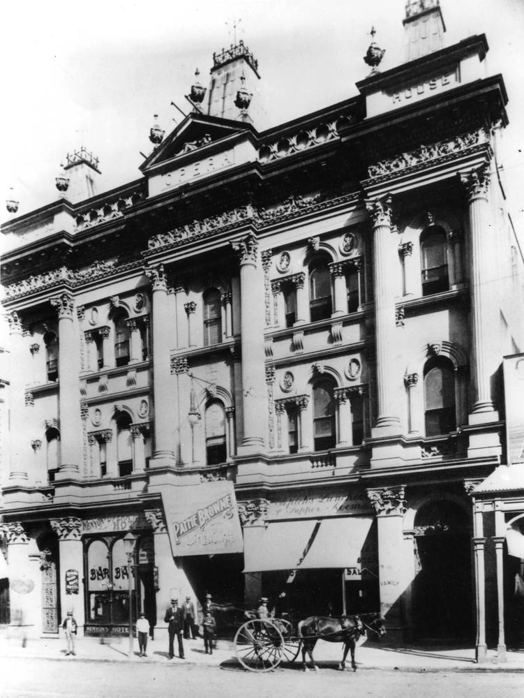 Facade of Her Majestys Theatre Brisbane circa 1898